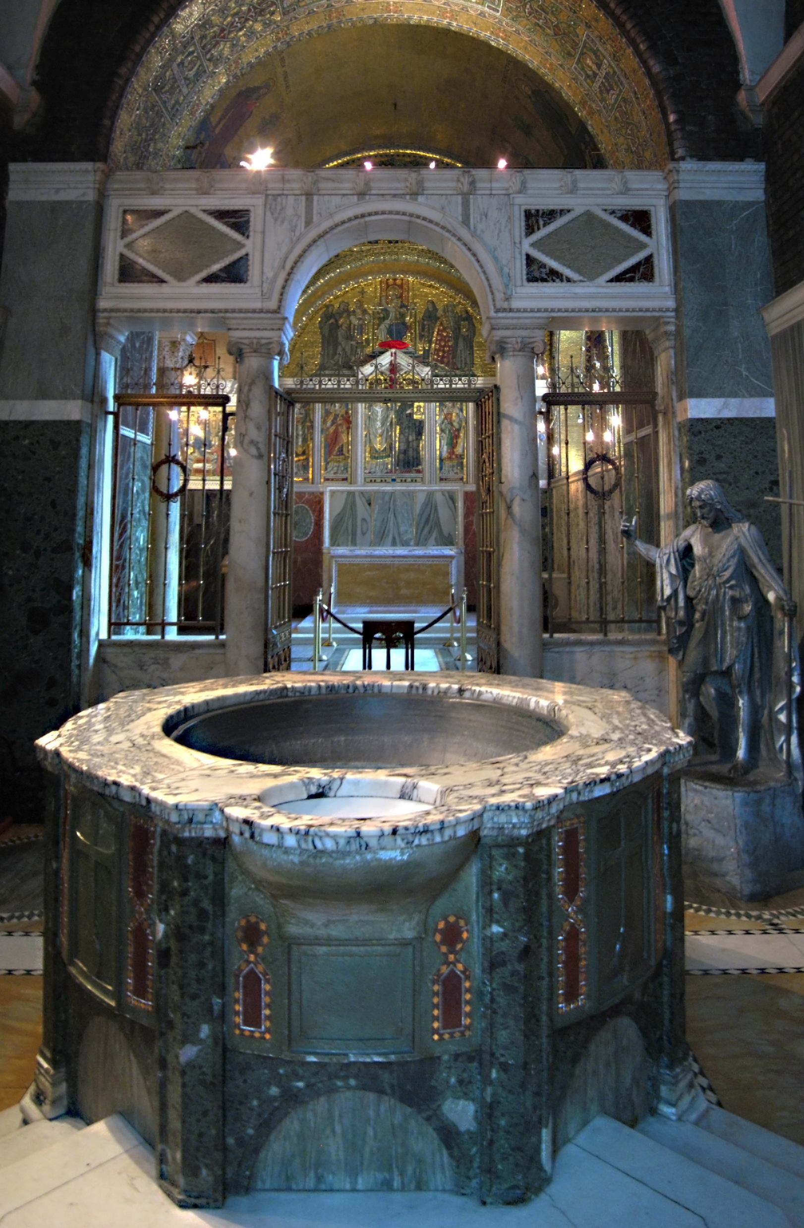 Baptistry of Westminster Cathedral.